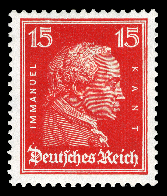 series of stamps of the German Empire, Immanuel Kant (1724-1804) Ausgabepreis: 15 Pfennig First Day of Issue / Erstausgabetag: 1. November 1927 Michel-Katalog-Nr: 391 (Deutsches Reich)